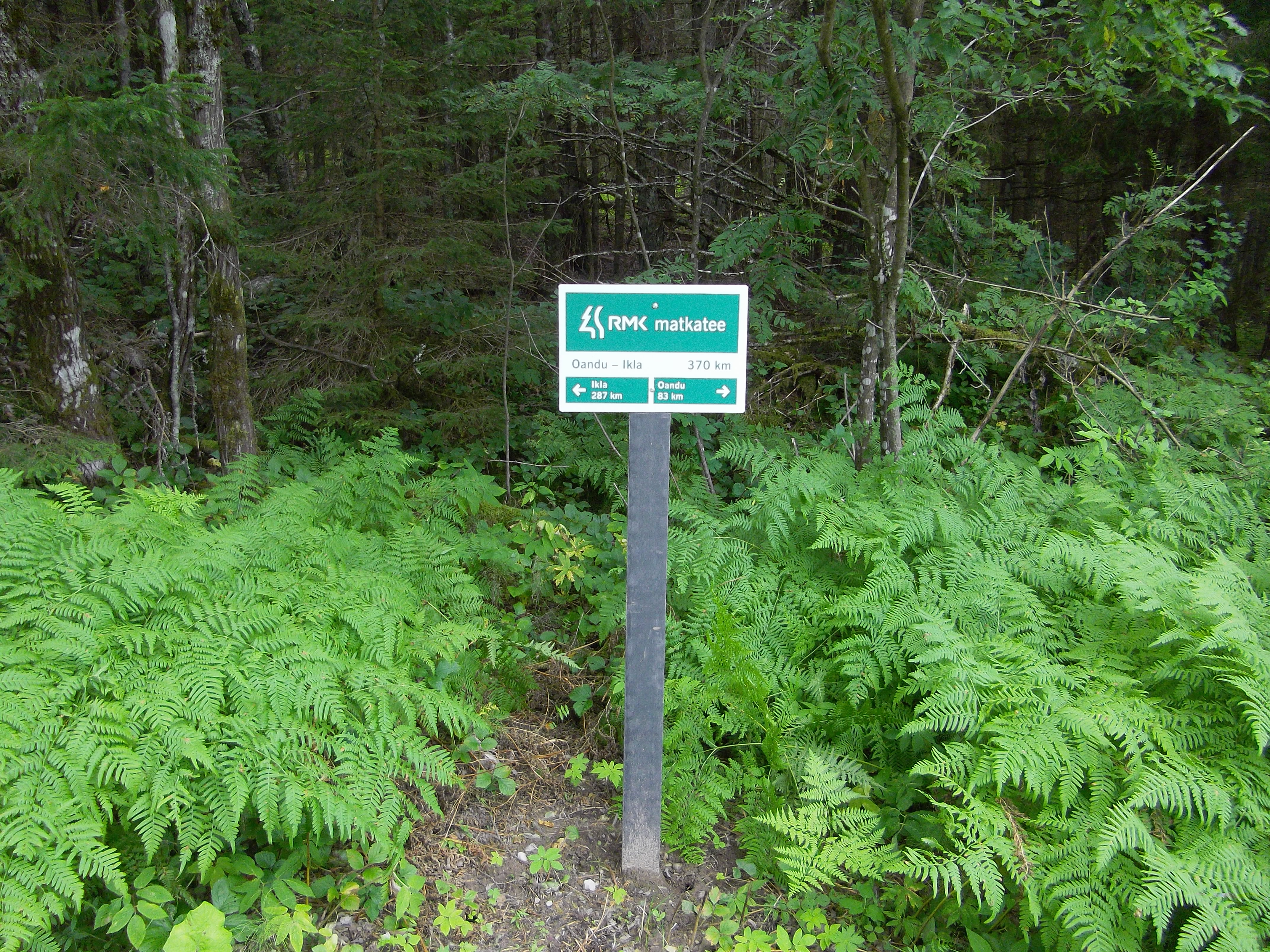 Oandu-Ikla 83rd km